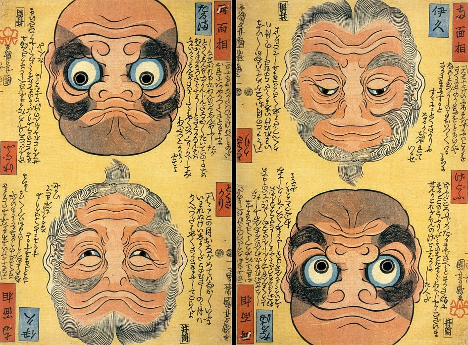 This is an image of a Kuniyoshi blockprint from 1852, it can not be under copyright anymore so I offer it here. This is a combined image with both perspectives in order to make comparison of perspectives easier.